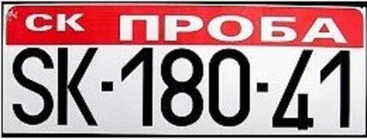 Dealer's License Plate of Macedonia from Skopje